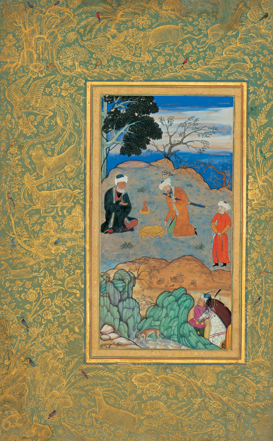 Advice of the Ascetic, Moraqqa’-e Golshan, conserved in Golestan Palace, Tehran, Iran